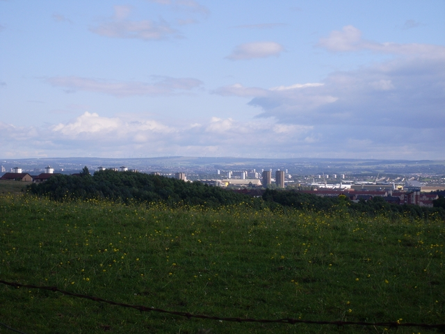 View to Glasgow from Cleddans Road Across the fields behind Clydebank.